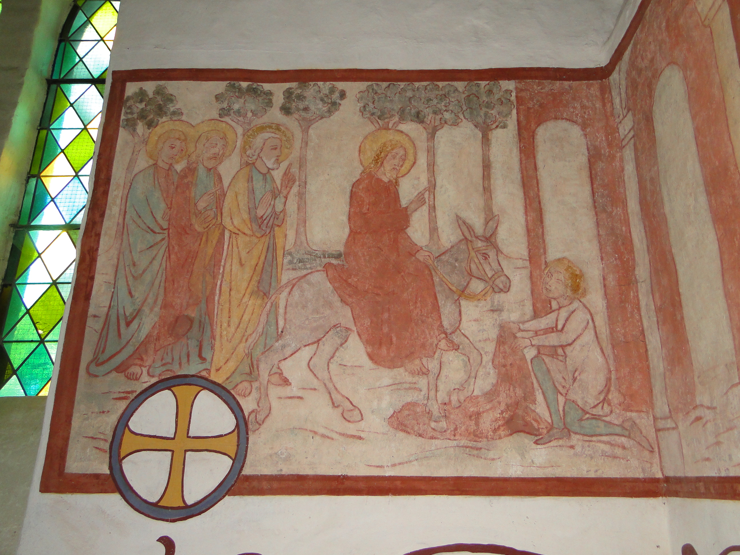 Fresco in the church in Below, district Ludwigslust-Parchim, Mecklenburg-Vorpommern, Germany